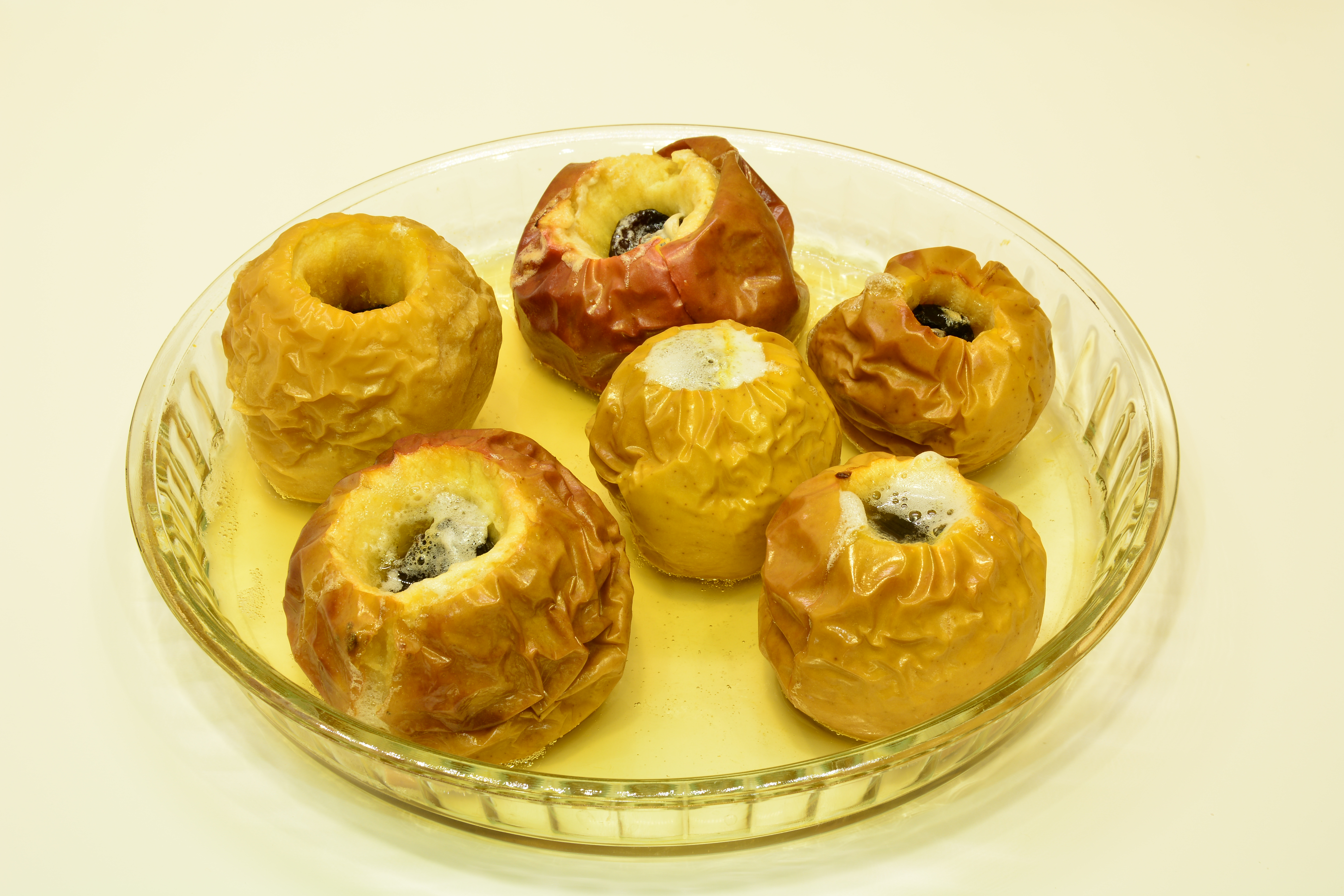 Freshly baked apples filled with prunes and honey.